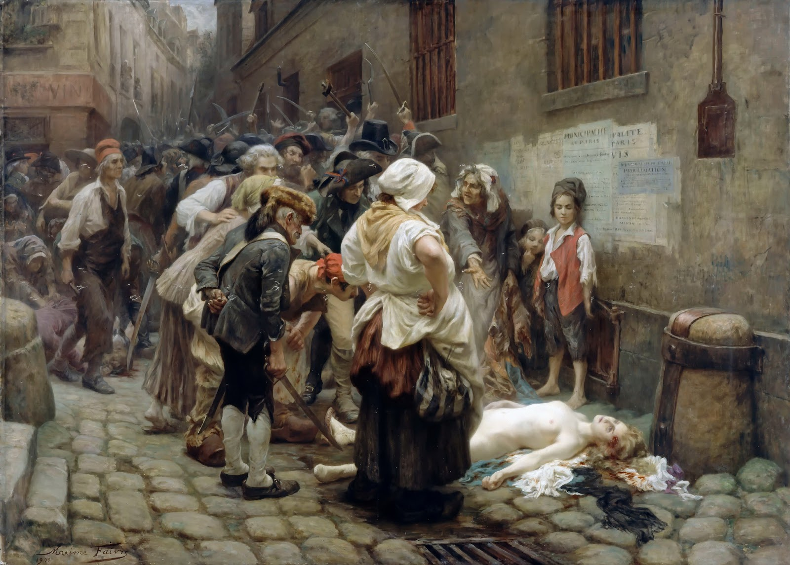 Léon-Maxime Faivre, Death of the Princess de Lamballe.